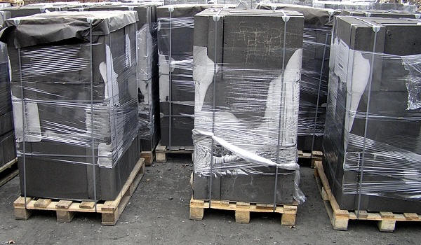 Ukrainian sectional foamglass in a transport packing